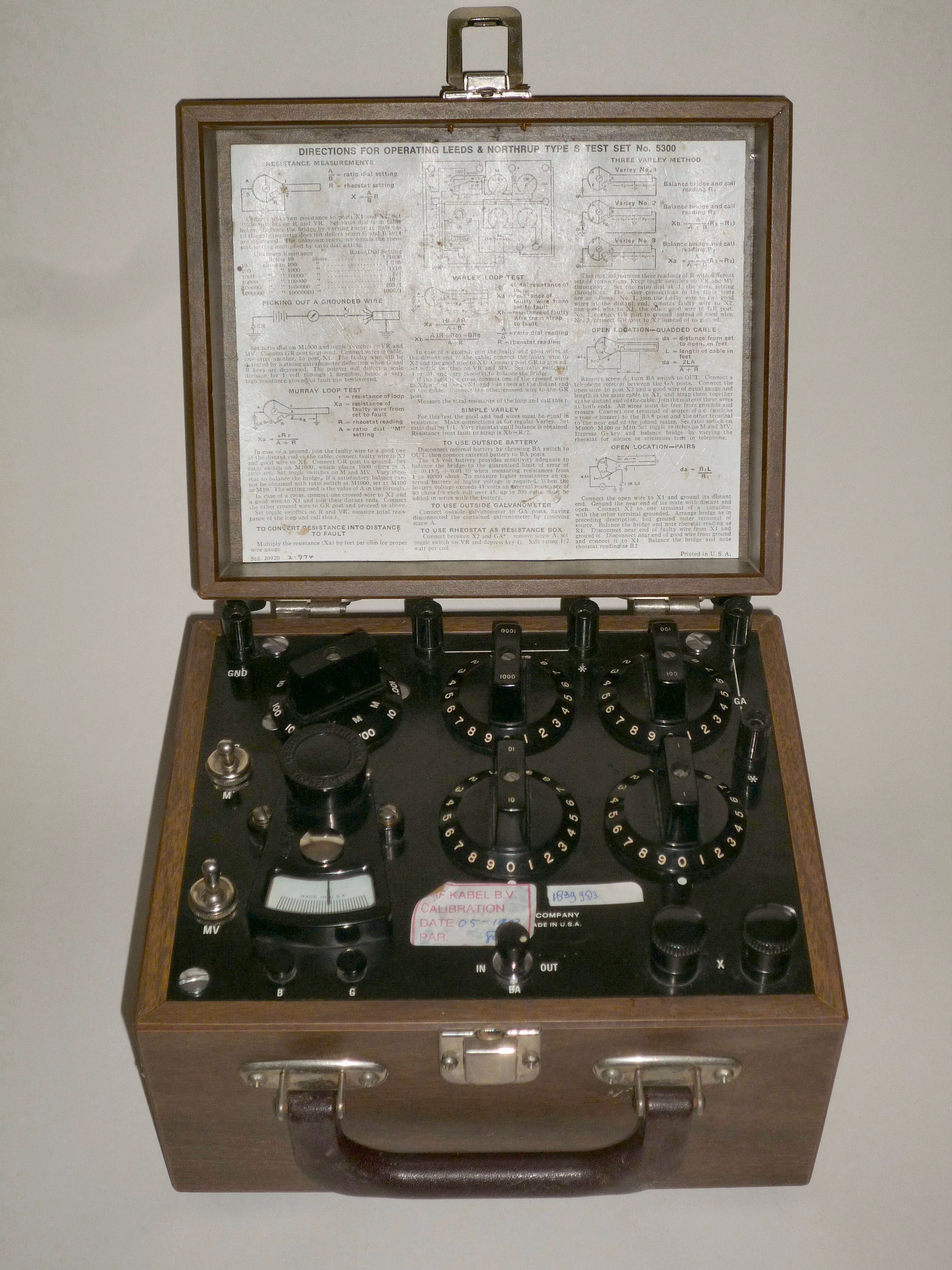 Device to localize shorts in (underground) cables (based on Wheatstone's bridge).